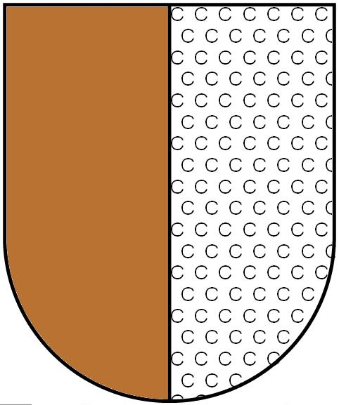 Copper